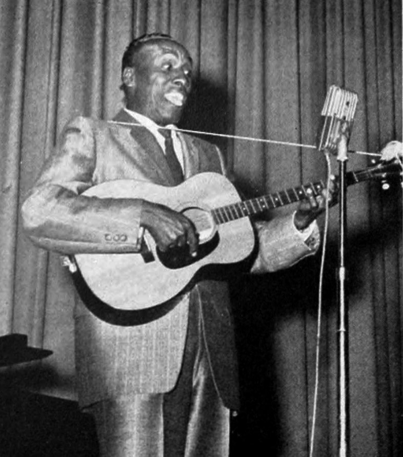 Scatman Crothers performing at UCLA